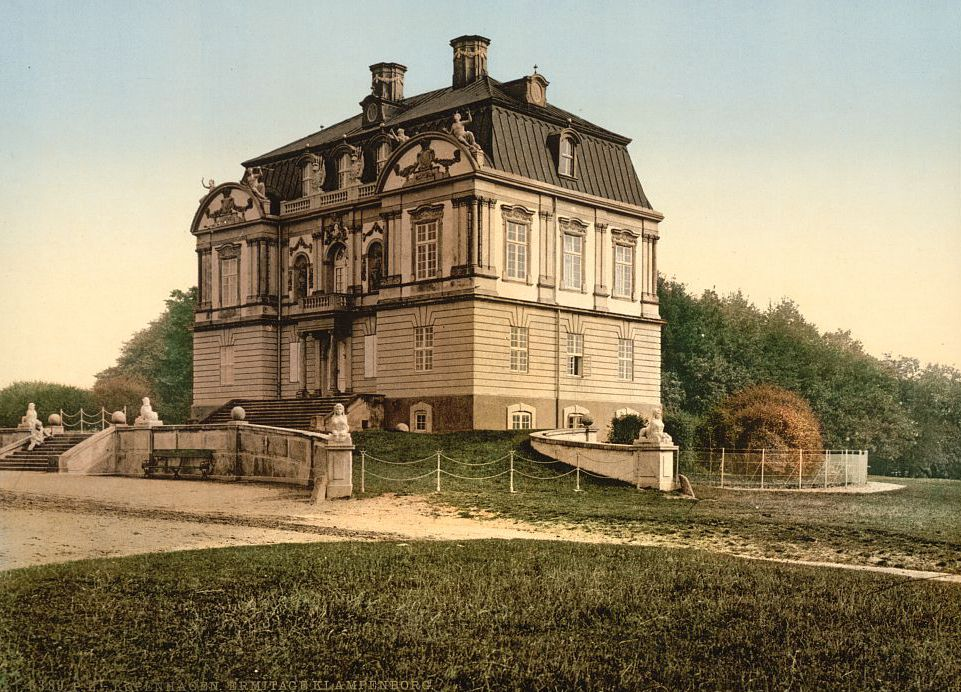 [Klampenborg Hermitage, Copenhagen, Denmark] [between ca. 1890 and ca. 1900]. 1 photomechanical print : photochrom, color. Notes: Title from the Detroit Publishing Co., catalogue J, foreign section. Detroit, Mich. : Detroit Publishing Company, c1905. Print no. 6389. Forms part of: Views of architecture and other sites in Copenhagen, Denmark in the Photochrom print collection. Subjects: Denmark--Copenhagen. Format: Photochrom prints--Color--1890-1900. Repository: Library of Congress, Prints and Photographs Division, Washington, D.C. 20540 USA, Part Of: Views of architecture and other sites in Copenhagen, Denmark (DLC) 2001697980 More information about the Photochrom Print Collection is available at Persistent URL: Call Number: LOT 13421, no. 008 [item]